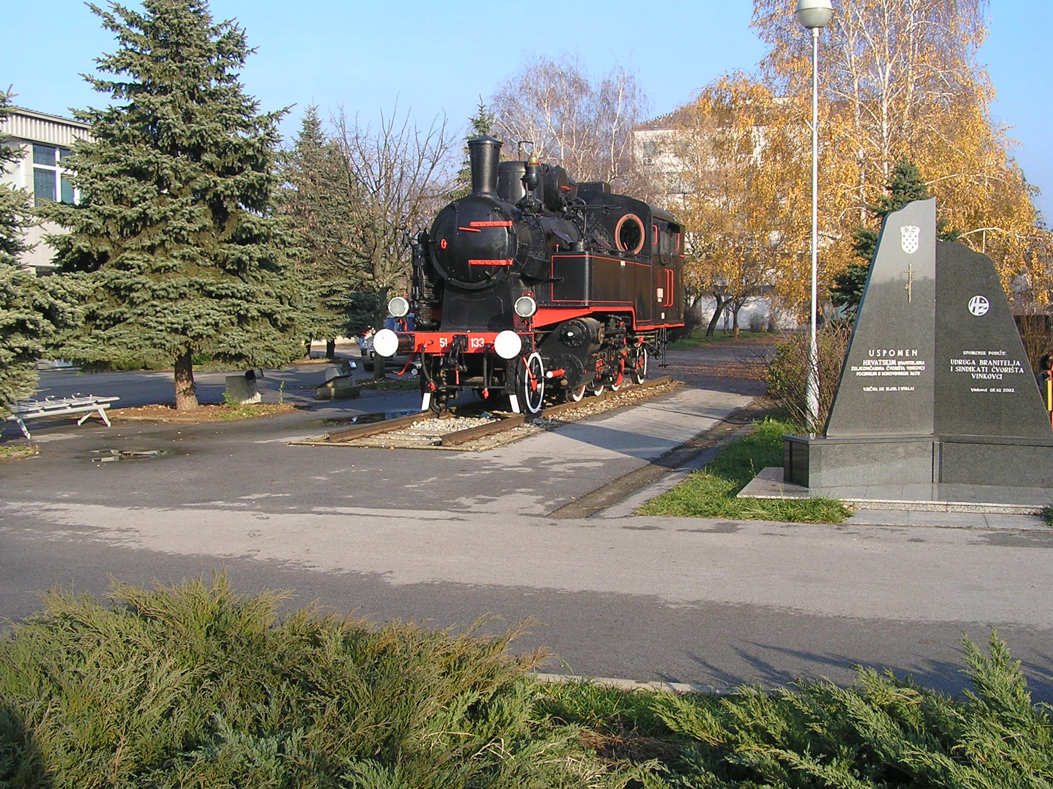 A monument. This is an old steam locomotive once used on JŽ. Besides it is ingraved: "In memoriam to croatian defenders, men working for railway od the railway junction Vinkovci, which have died in the civil war".